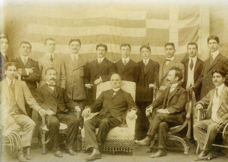 Graduates and teacher of the Evangelical School of Syrna (Izmir), 1878.